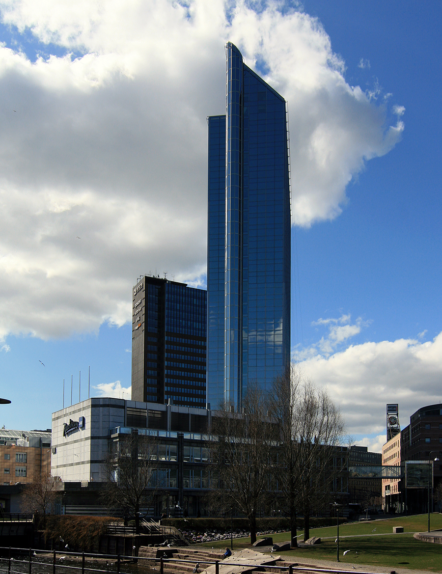 Plaza Hotel, Oslo. Built 1987-89; White Arkitekter AB. 35 stories; Norway's tallest - and probably Oslo's most infamous - building.